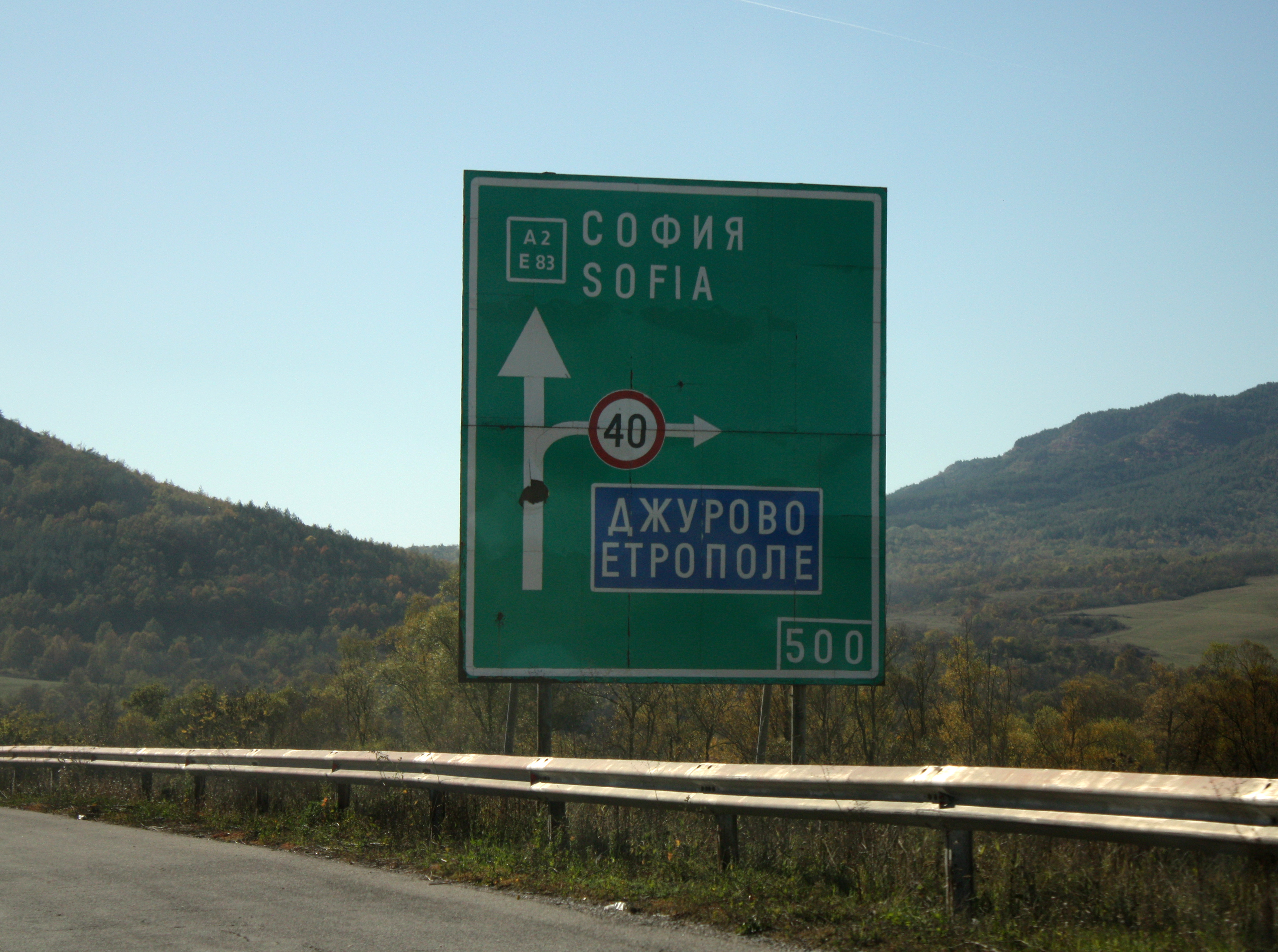 Road sign on Road A2 to Dzhurovo